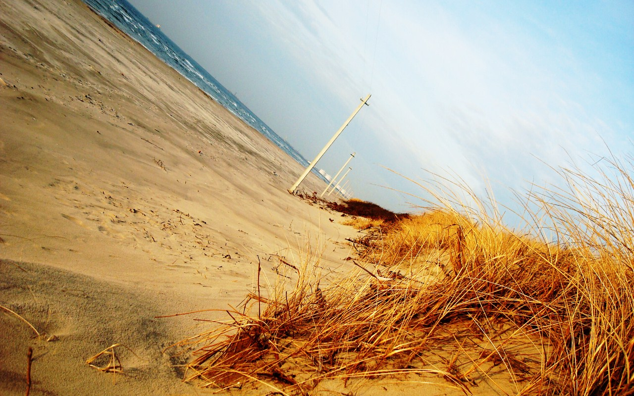 Dynamic shores in Klaipėda.